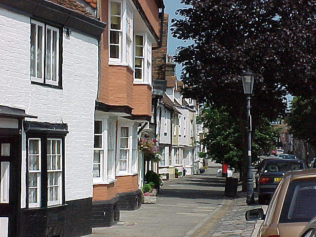 Abbey Street, Faversham, near to Faversham, Kent, Great Britain. Took this having just eaten at The Phoenix Tavern on a working trip to what I had previously thought was a bland town. I see the place in a different light now.